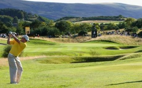 PGA Centenary Course at Gleneagles, Schotland, venue for the Ryder Cup in 2014